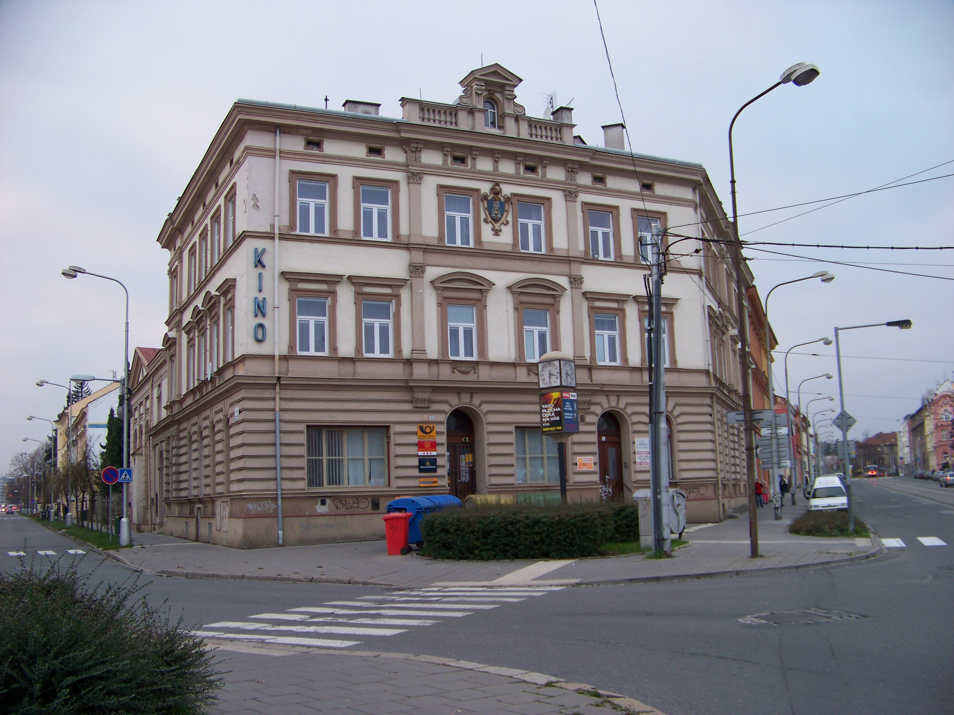 Olomouc-Nová Ulice, Olomouc District, Olomouc Region, Czech Republic. Litovelská 111/1, tř. Svornosti 111/2a.